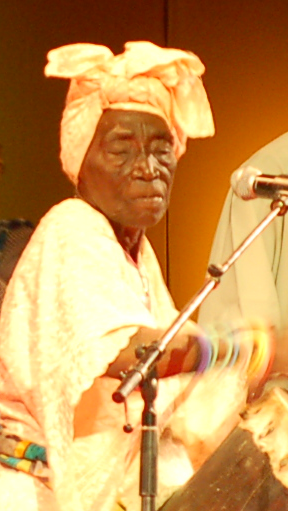 Bi Kidude